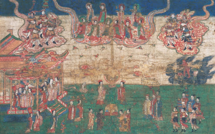 Birth of Mani, fragment of hanging scroll, gold and pigments on silk, H: 35.6 cm, W: 57.0 cm, southern China, 14th/15th century (Kyūshū National Museum, Japan).